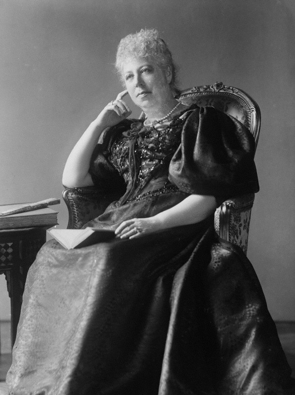 Constance Flower (née de Rothschild), Lady Battersea by Alexander Bassano, half-plate glass negative, 1897